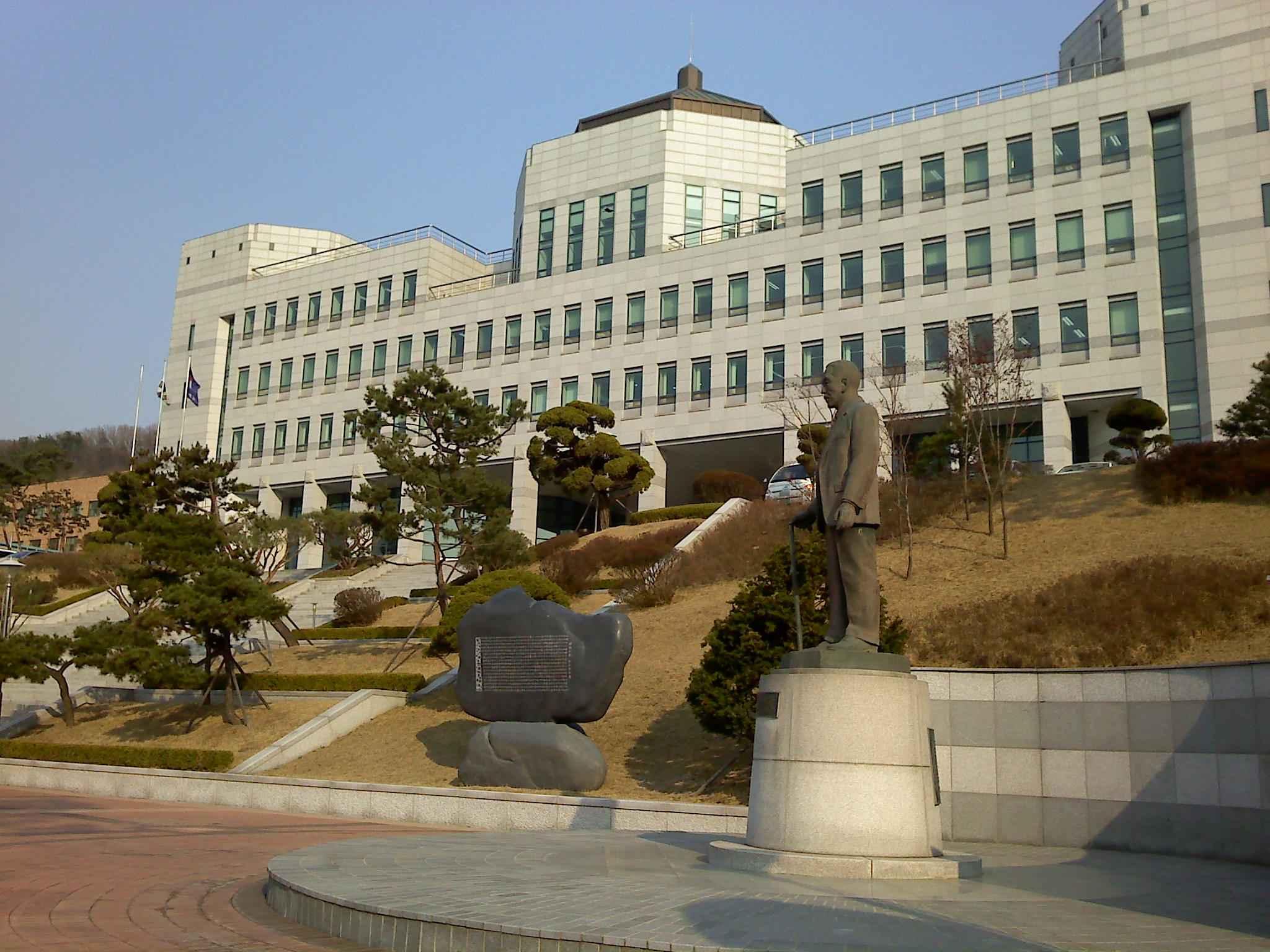 Main Building and the statue of the founder Beomjeong Jang-hyeong(Jukjeon)